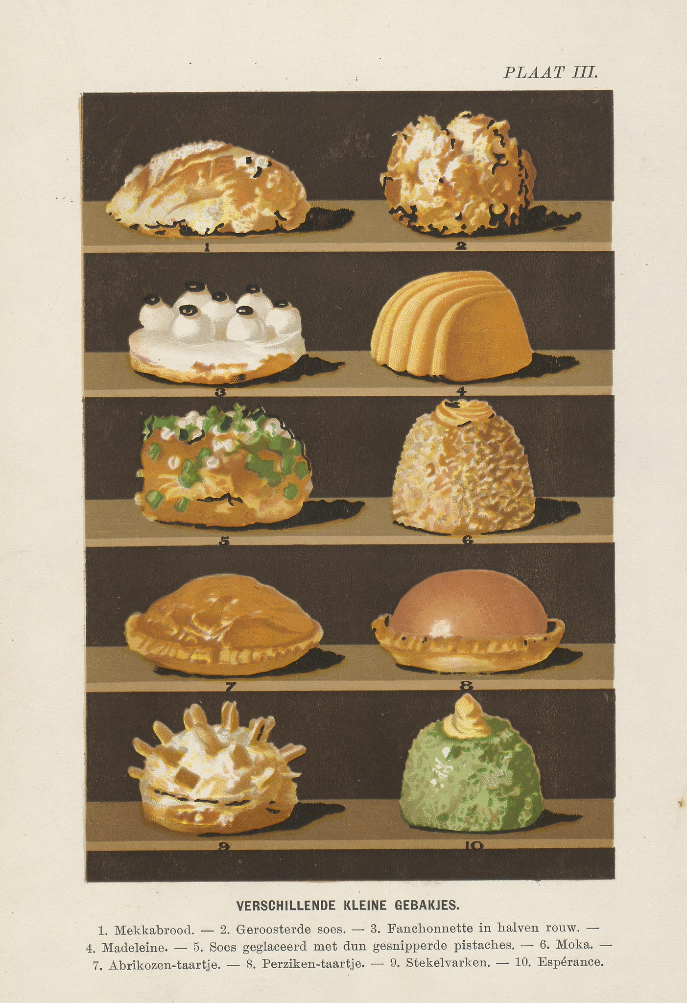 The first colour plates in cookery books began to appear after 1850. They make the cakes from French chef Jules Gouffé appear extra appetizing. Call nr. KG 12-115